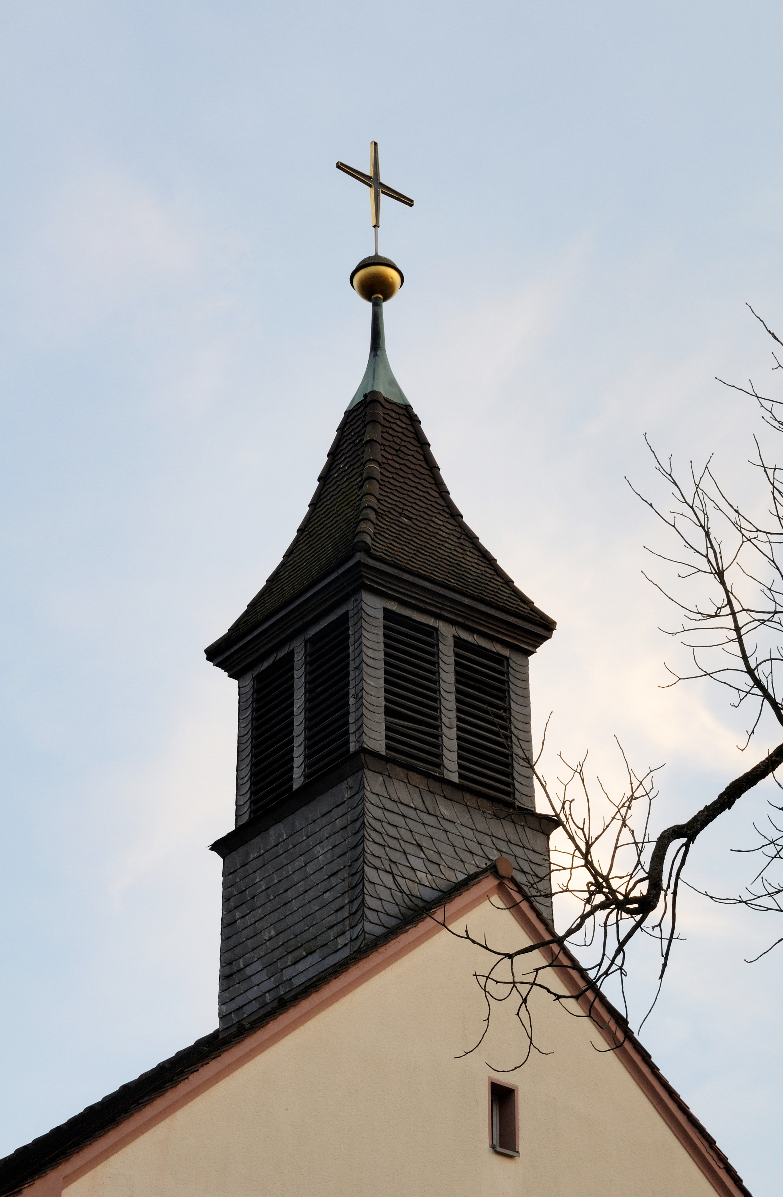 Kandern-Wollbach: Catholic Church (bell tower)